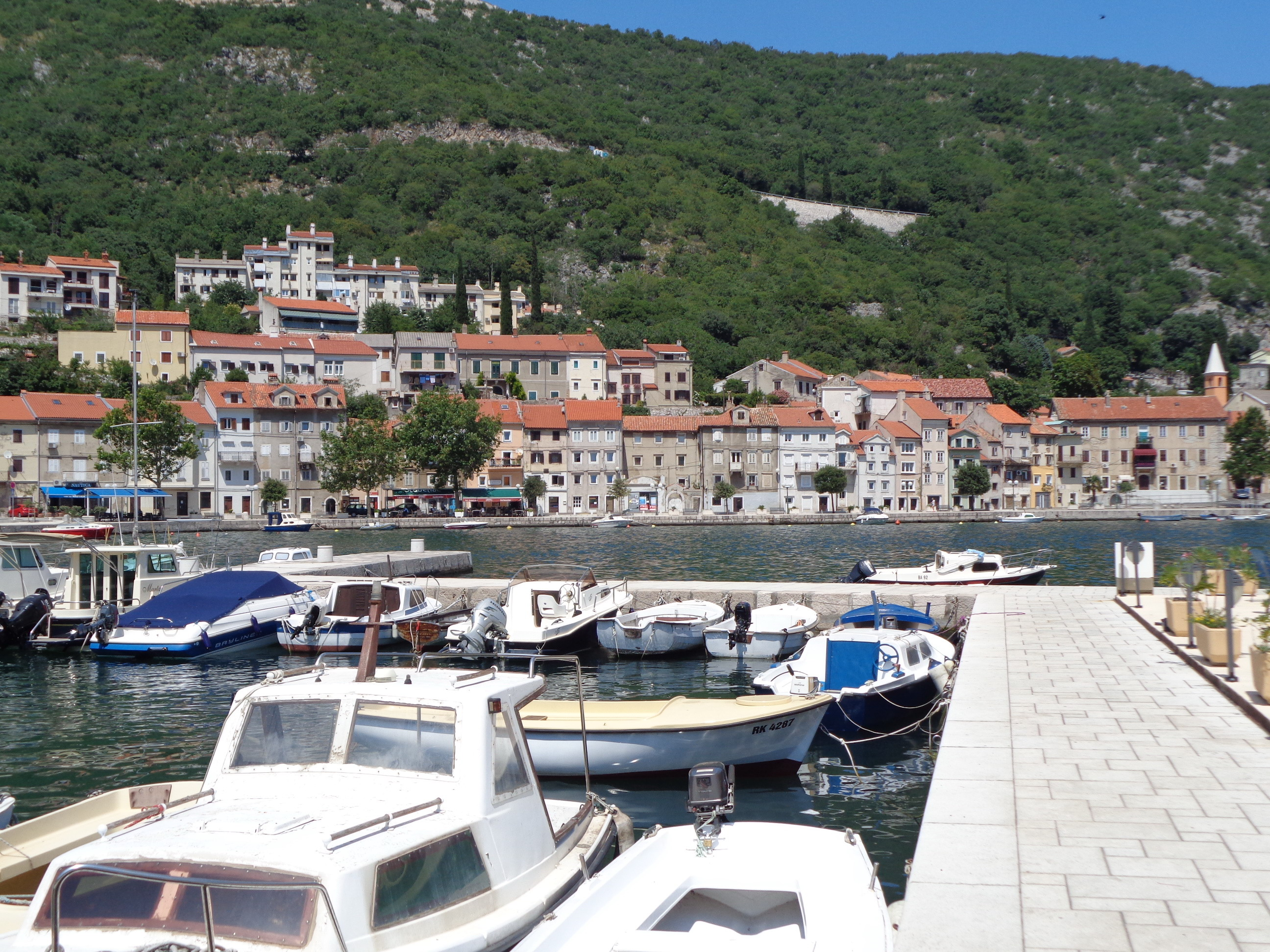 The Town of Bakar, Croatia - boats